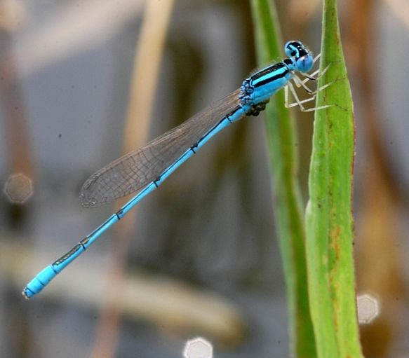 Pseudagrion microcepahlum Damselfly, Bannerghatta, India